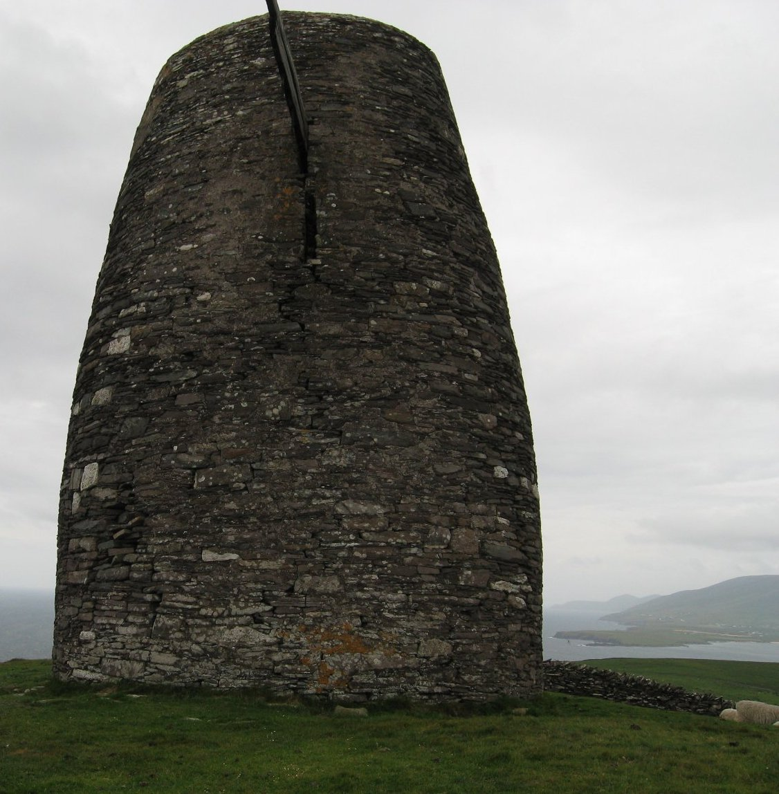 Eask Tower is on the east tip of Ballyameenboght, just south of Dingle Bay.